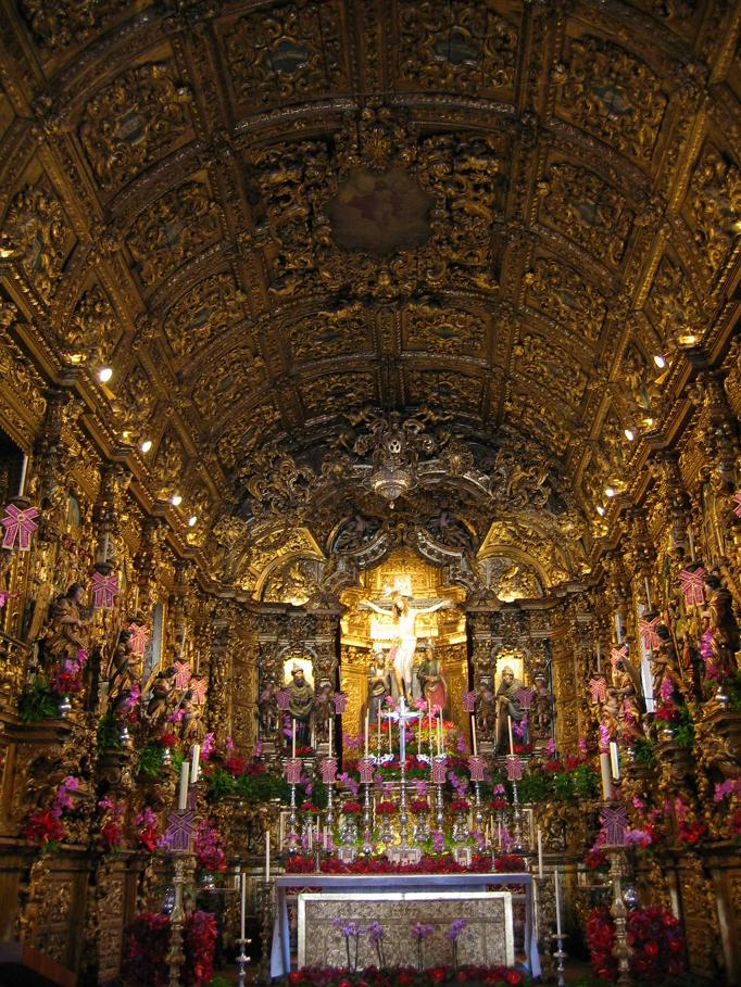 Church of Matosinhos - Portugal